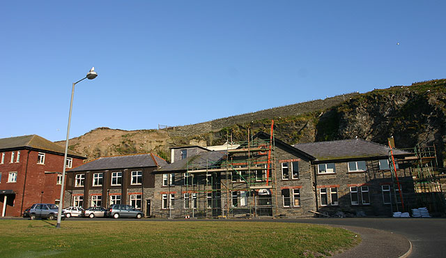 Port Erin Marine Biological Station. Soon to close as a research centre. Attached to Liverpool University: Prof. Trevor Norton is the Principal.